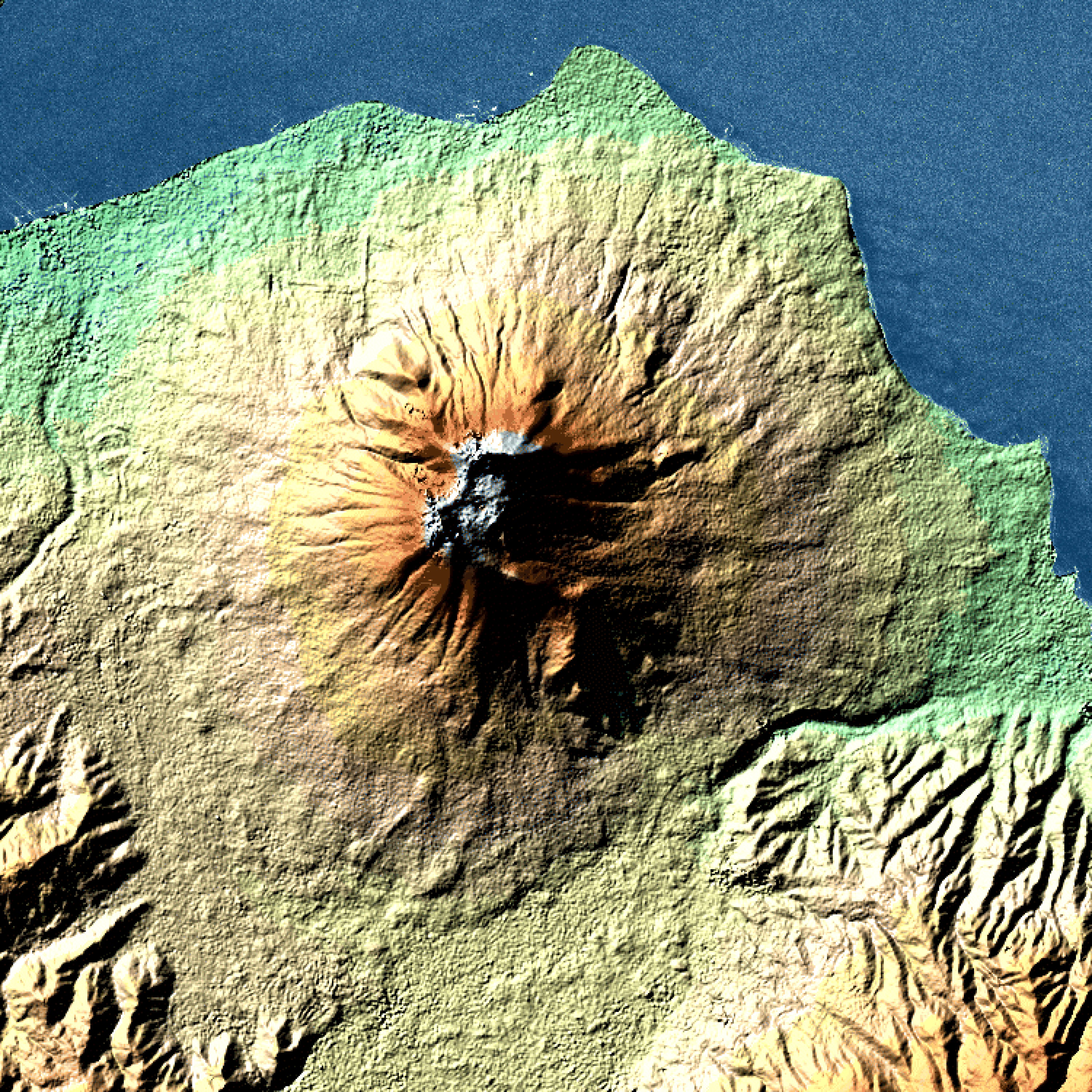 Koma-ga-take, an active volcano in Hokkaidō, Japan. Taken during space shuttle mission STS-99.